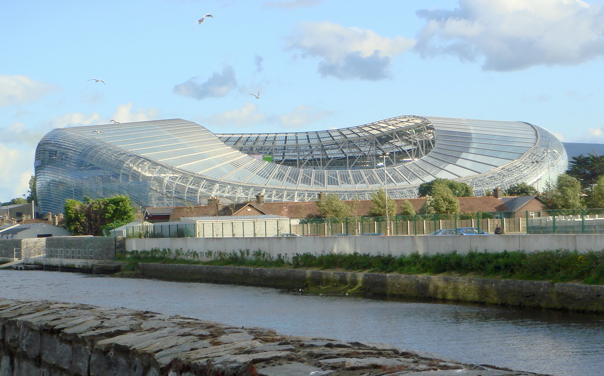 Aviva Stadium (Dublin Arena) with River Dodder in foreground. Photo taken from Fitzwilliam Quay.